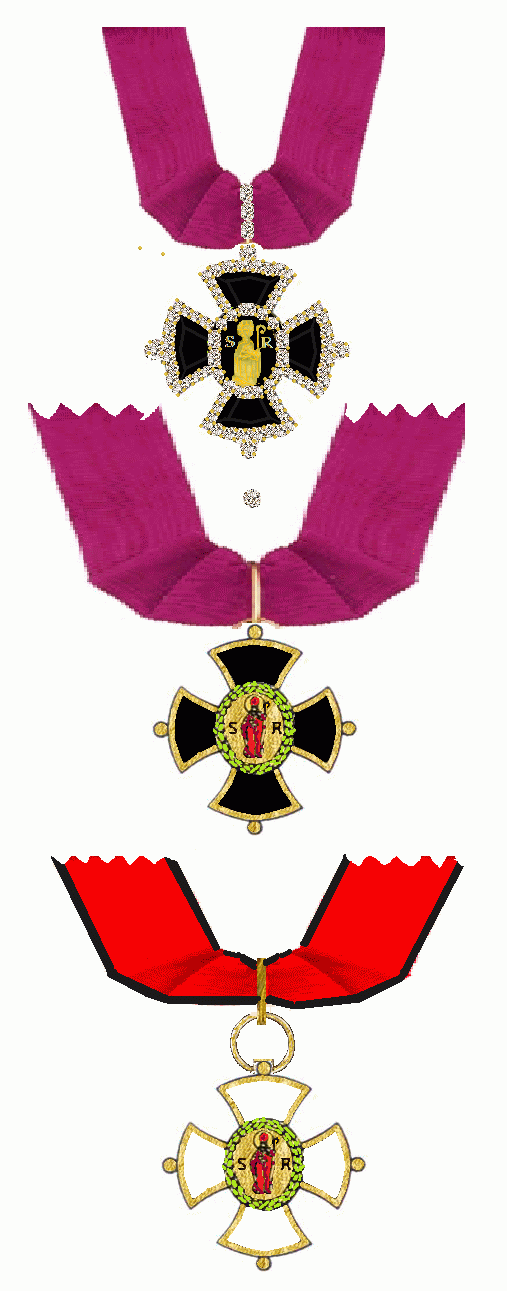 St. Ruperti-Ritterorden Order of Saint Rupert